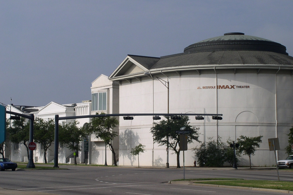 Gulf Coast Exploreum at the corner of Water and Government Streets in Mobile, Alabama. Taken from Water Street.